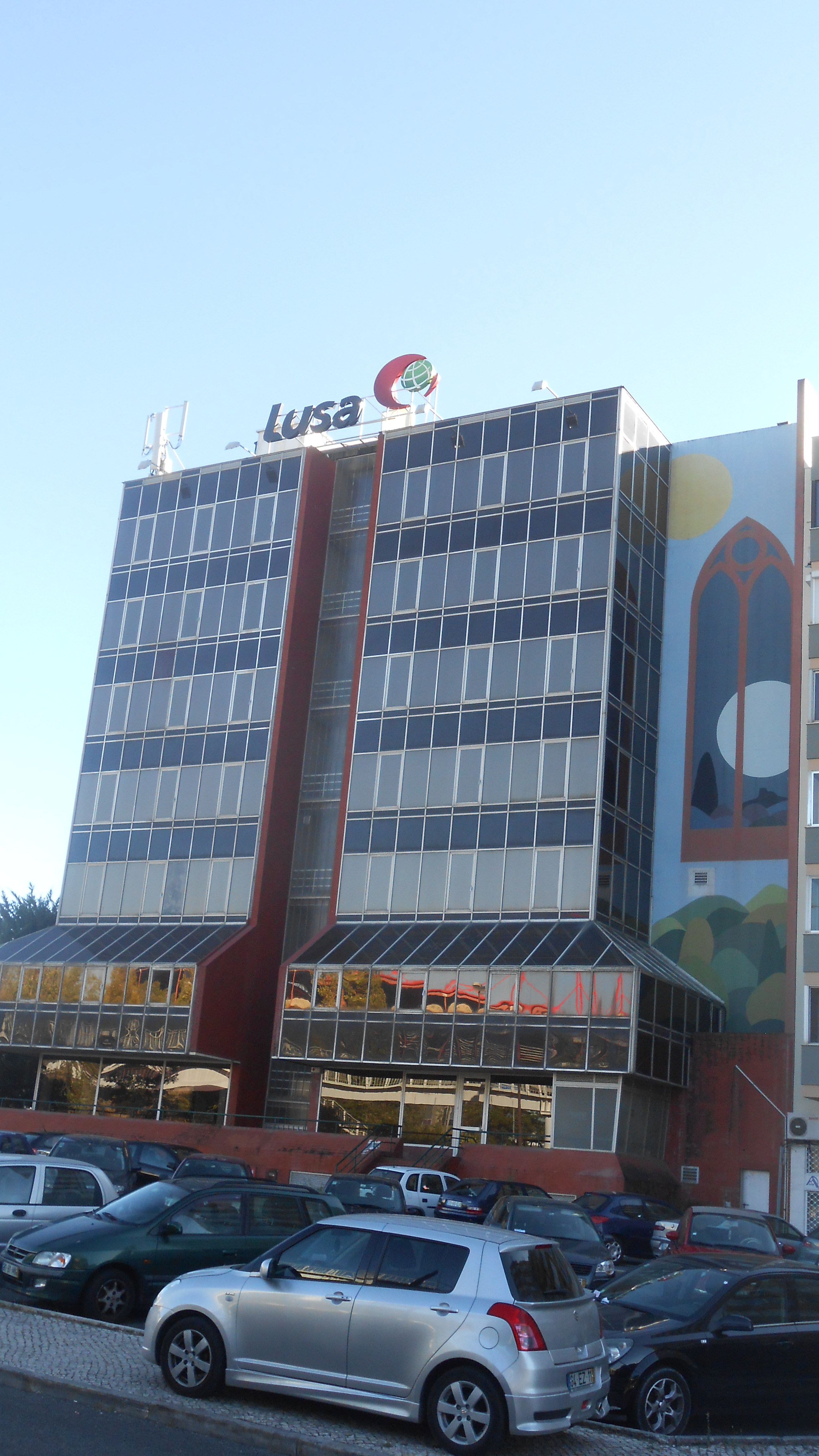 Building of the portuguese news agency Lusa, situated next to the Colombo Shopping Centre in Benfica, Lisbon.